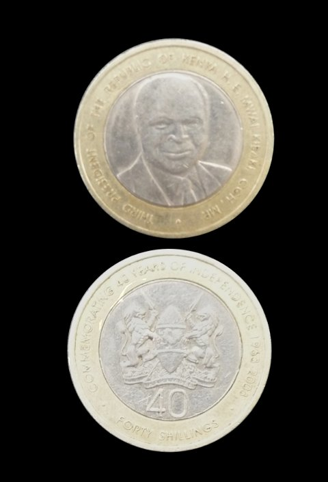 40 kenyan shillings